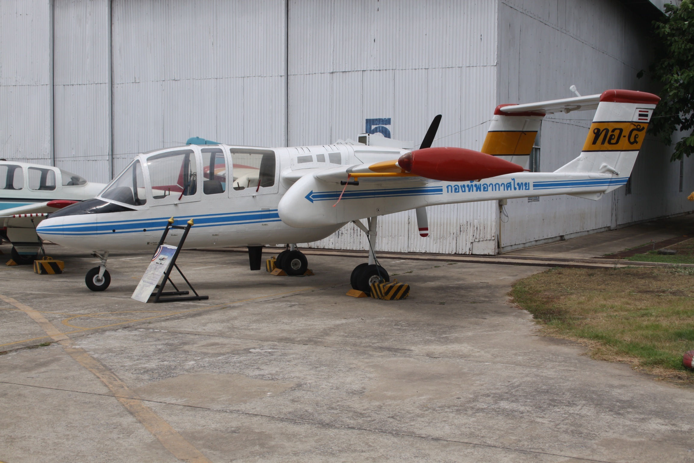 At Don Mueang International Airport